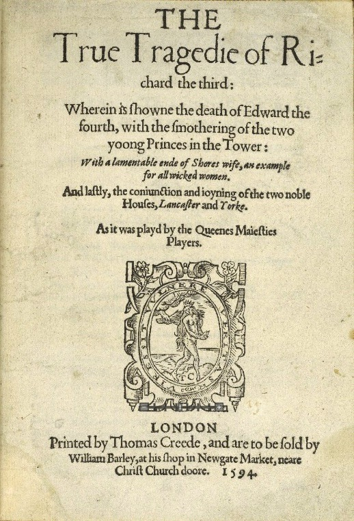 Cover page of The True Tragedy of Richard III, an anonymous Elizabethan history play published in 1594, which some scholars believe may have influenced Shakespeare's Richard III.